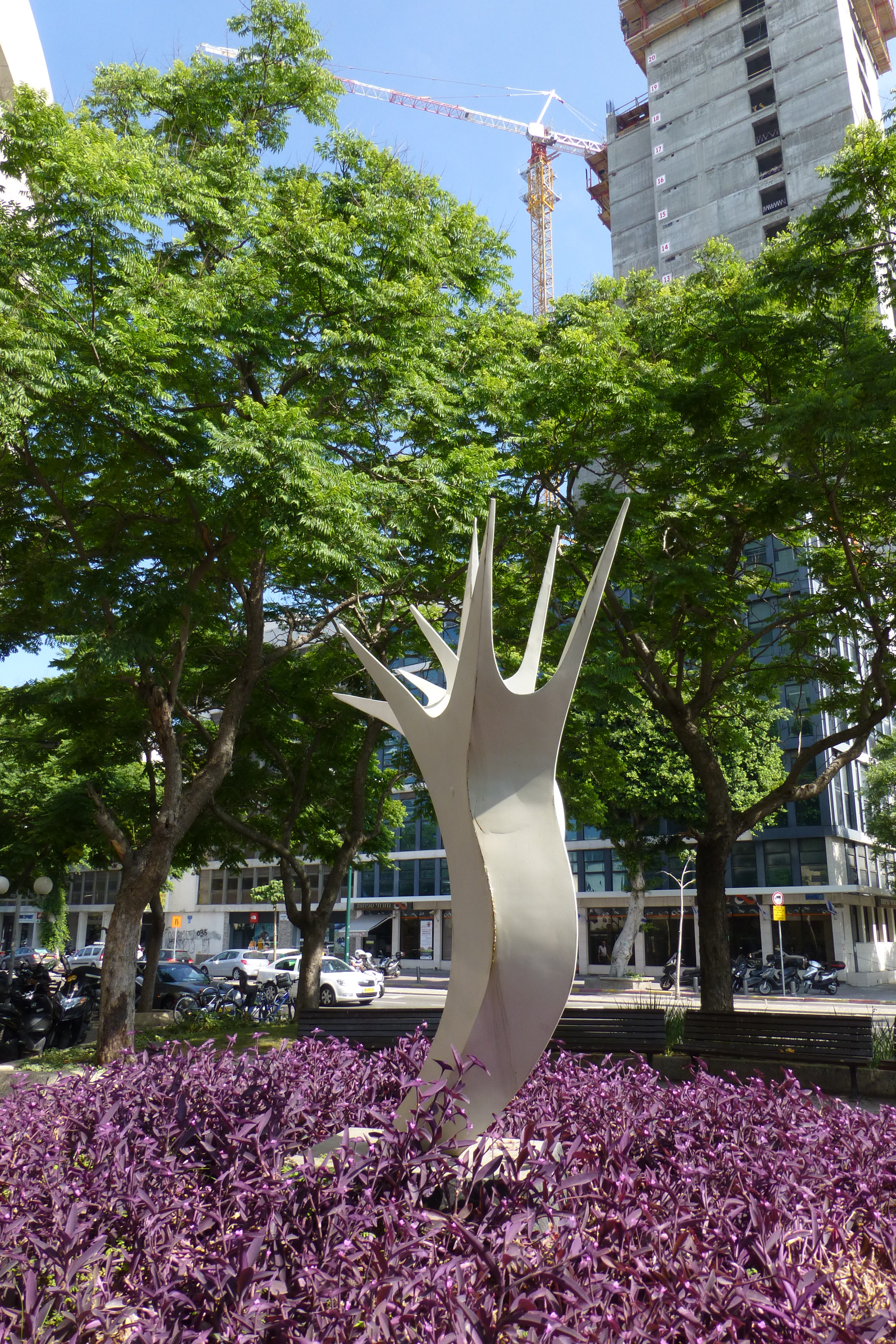 Begin Road, Tel Aviv-Yafo